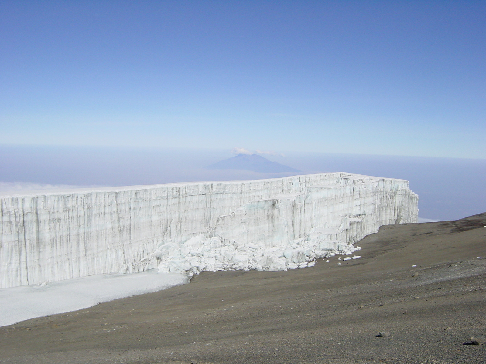 Rebmann Glacier on top of Kilimanjaro, Southern Icefield. Mount Meru in background.